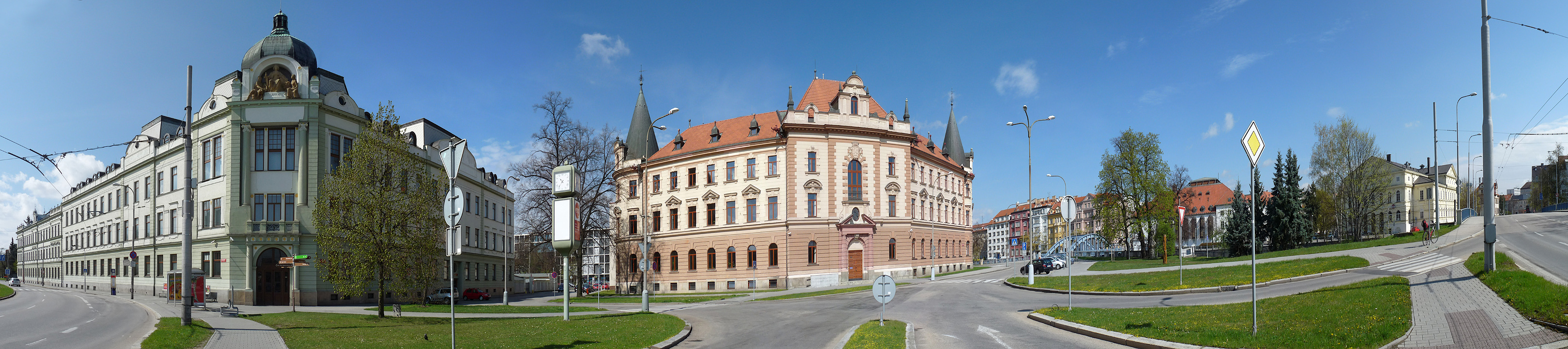 Regional office and the courthouse in Lidická Street in České Budějovice, Czech Republic.